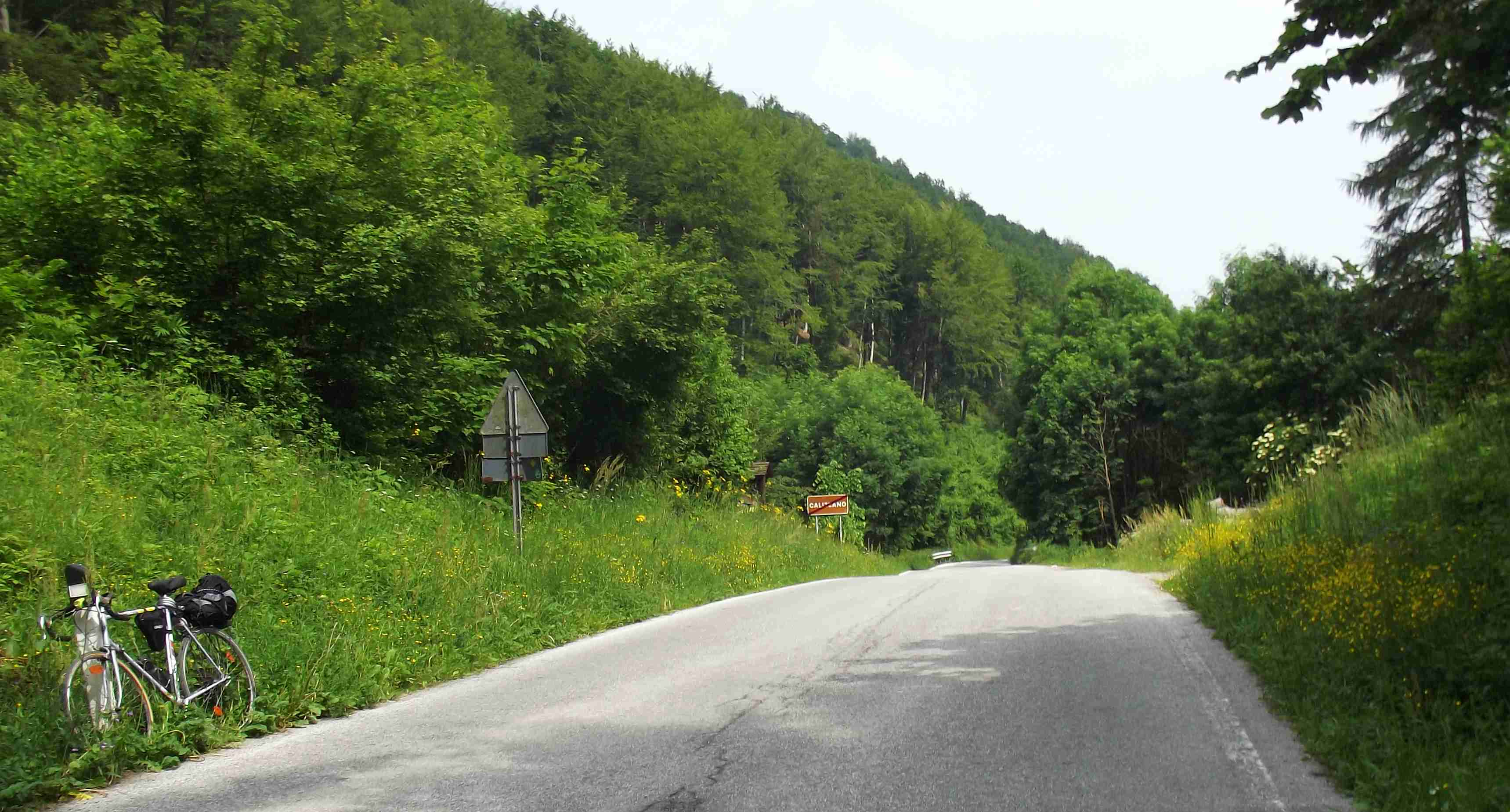 Colle dei Giovetti (SV, Italy)